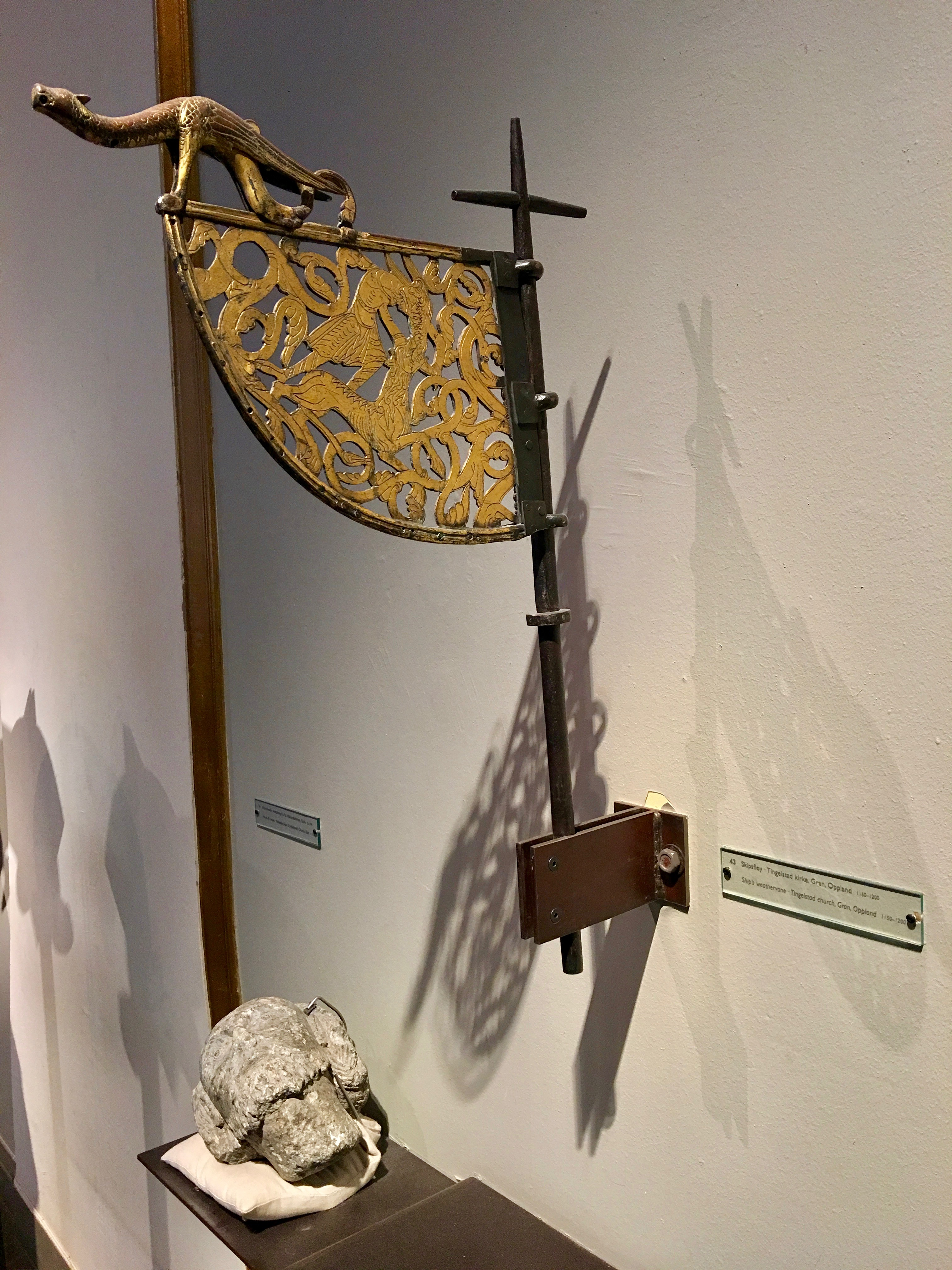 Ship's weather vane (in Norwegian Vindfløy, skipsfløy, Tingelstadfløyen) from Tingelstad Old Church, Gran, Norway, dated to the 12th century. Also stone statue of Bishop's head, probably from St. Hallvard's church (St. Hallvardskirken) in Oslo, ca. 1300. Photo from The Medieval Exhibition Room (middelalderutstillingen) at Museum of Cultural History (Kulturhistorisk Museum) in Oslo, Norway.